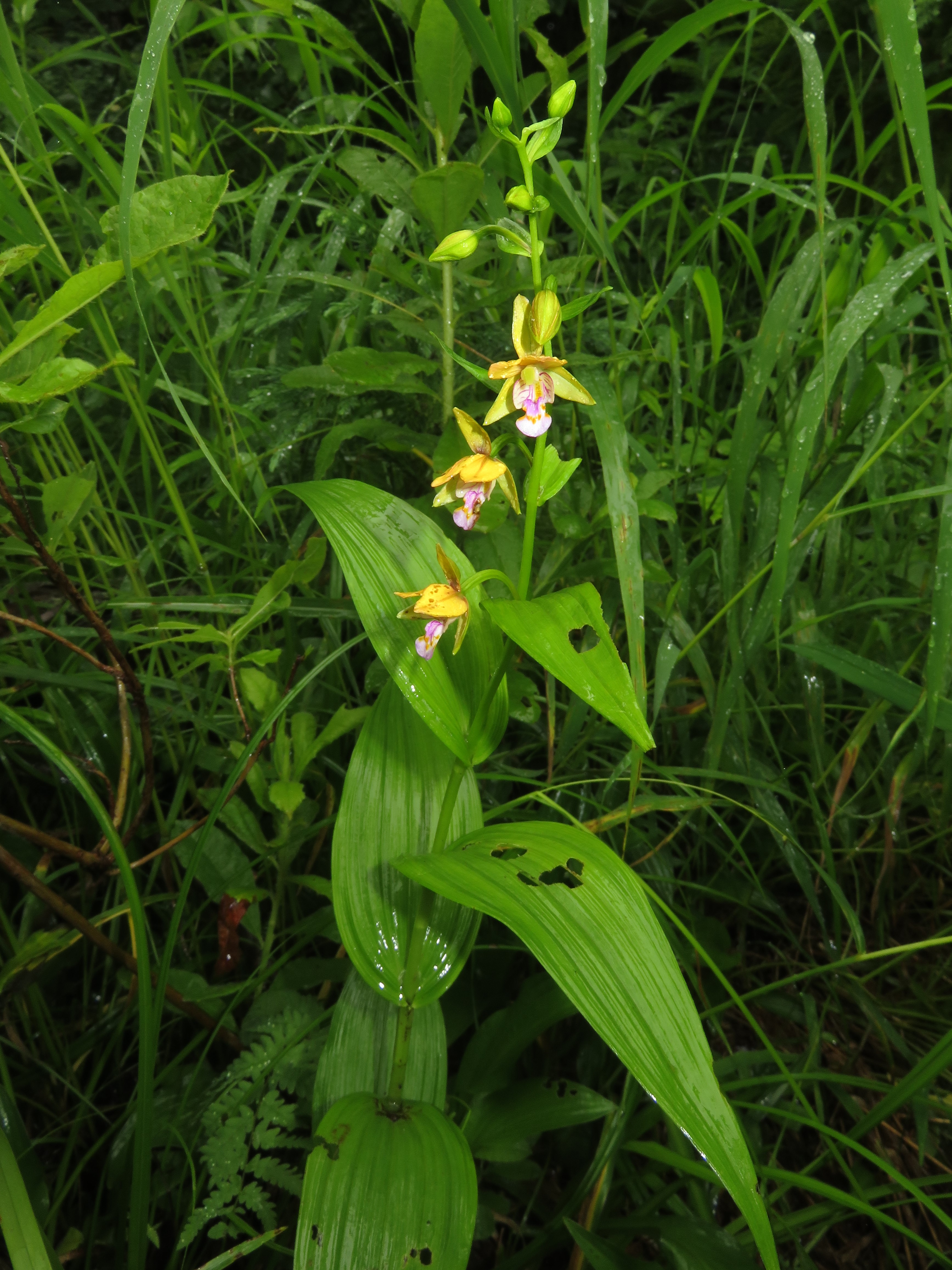 Epipactis thunbergii, Aizu area, Fukushima pref., Japan